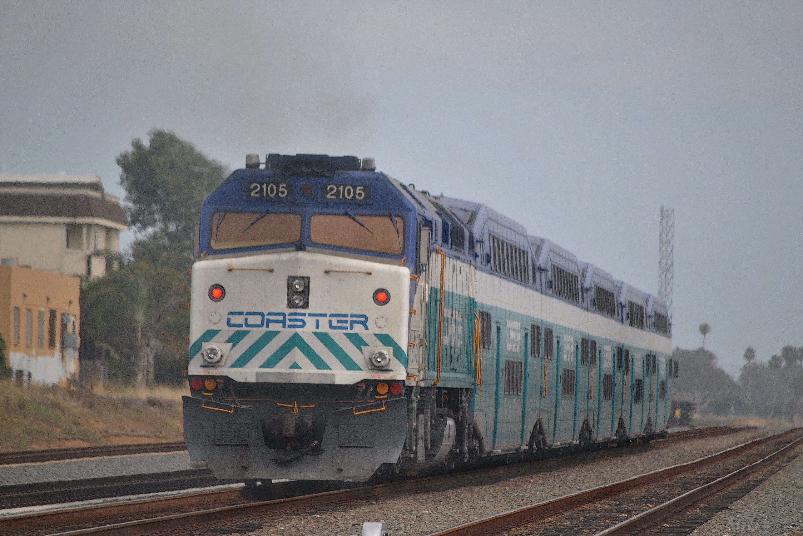 Providing customers with breathtaking coastal scenery, the COASTER commuter train runs north-south, serving eight stations between Oceanside and downtown San Diego. More than 20 trains run on weekdays, with additional service on the weekends. It takes about an hour to travel the entire COASTER route.